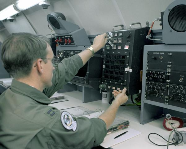 Inside the EC-135 Airborne Launch Control System